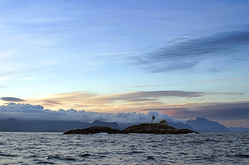 Moholmen lighthouse in Vågan, Lofoten, Norway